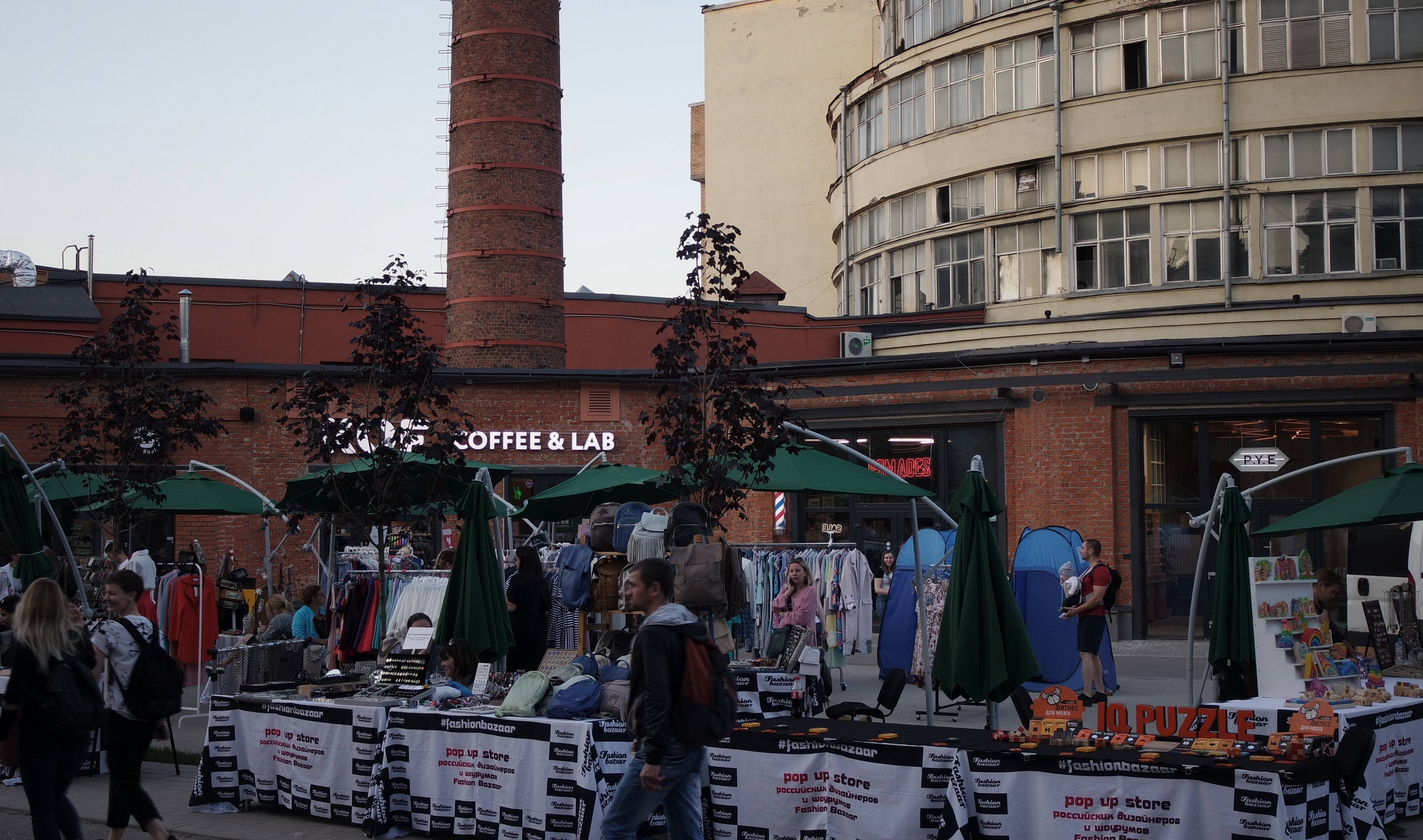 Market-place at Khlebozavod 9, Moscow after acquisition (Summer, 2017)